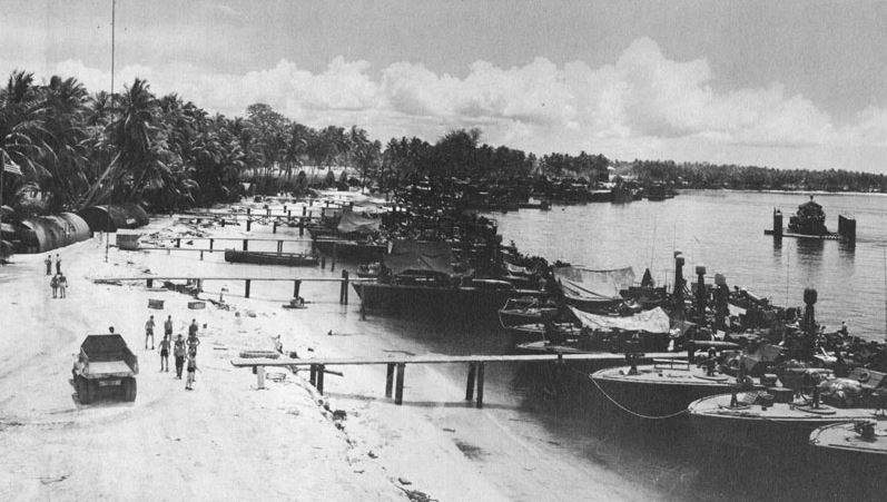 Mios Woendi NARA 80-G-258662 Finger piers and PT boats and drydock in background